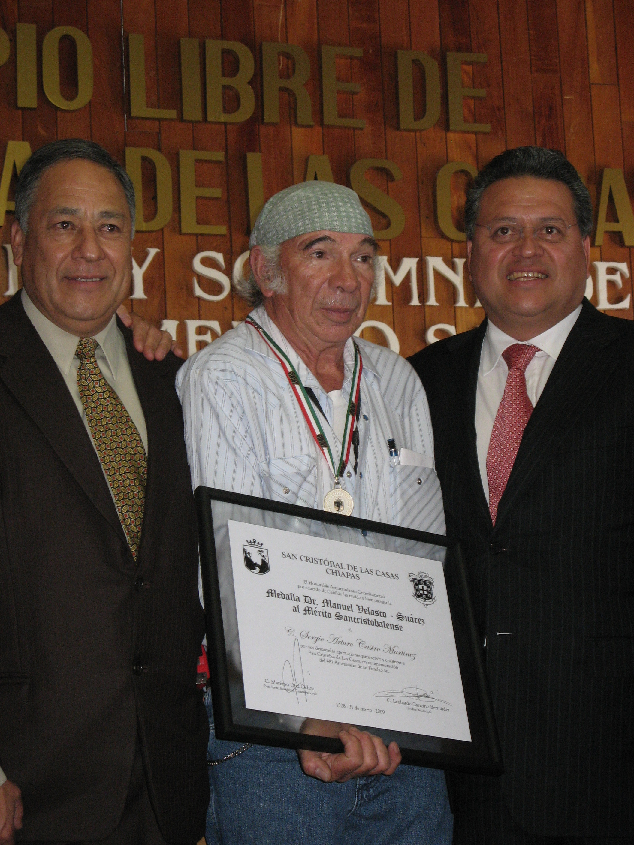 Sergio Arturo Castro Martinez receiving the Merito Sancristobalense Award on March 31, 2009 in San Cristobal de las Casas, Chiapas, Mexico